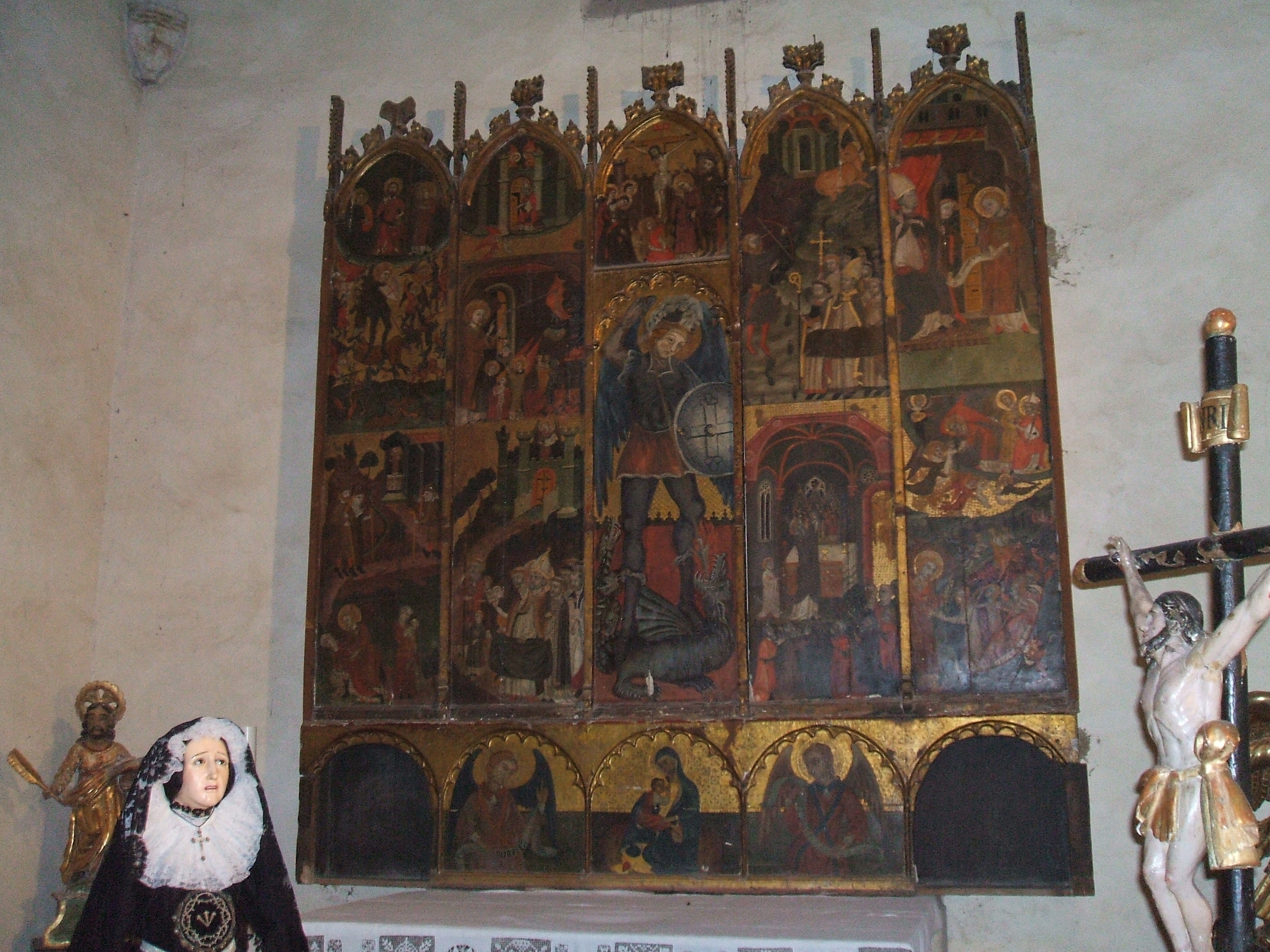 Elne cathedral (Pyrénées-Orientales, Languedoc-Roussillon, France) : Saint Michael chapel, gothic retable (XIVth and XVth centuries), gothic catalan style.